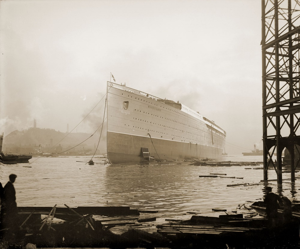 Bow view of the 'Mauretania' taken immediately after launch at the Wallsend yard of Swan Hunter & Wigham Richardson, 20 September 1906 (TWAM ref. ds.swh/5/3/4/2/B544). The 'Mauretania' was one of the most famous ships ever built on Tyneside. (Copyright) We're happy for you to share this digital image within the spirit of The Commons. Please cite 'Tyne & Wear Archives & Museums' when reusing. Certain restrictions on high quality reproductions and commercial use of the original physical version apply though; if you're unsure please . To purchase a hi-res copy please quoting the title and reference number.